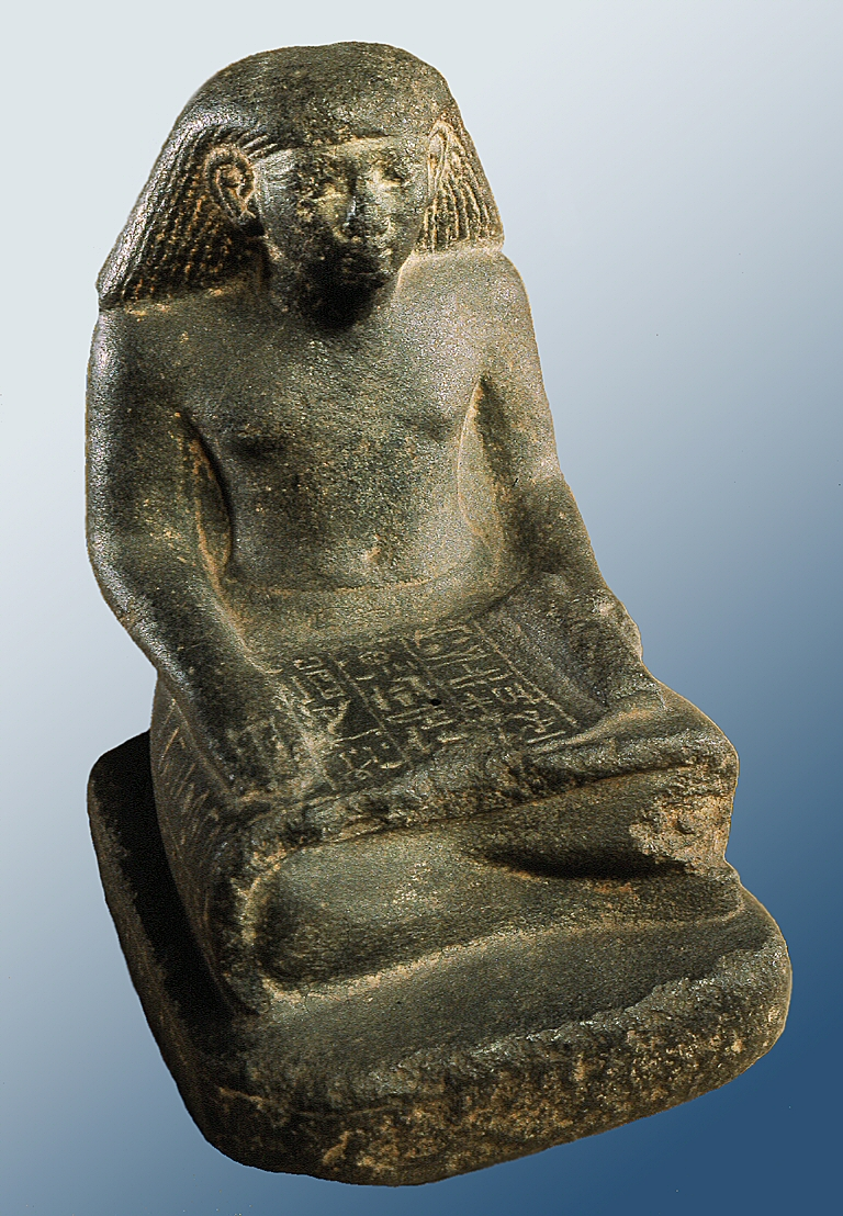 Min-nakht is reading the papyrus on his lap. One of the first New Kingdom sculptures of this type, Min-nakht's statue was inspired by early Middle Kingdom style, including his large, prominent ears and his wig. The inscription on the papyrus records Min-nakht's name and his title, royal scribe. On the base is an offering text.